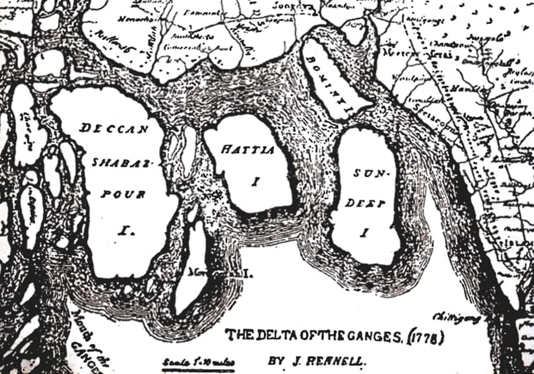 The delta of Ganges drawn by J. Rennell (1778) Collected and uploaded to commons by Rahat Rahim